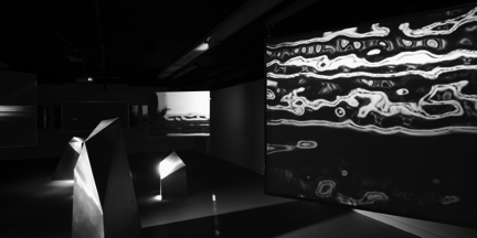 Tim White-Sobieski, Terminal I (Day At The Airport), 2001-2002, Installation view